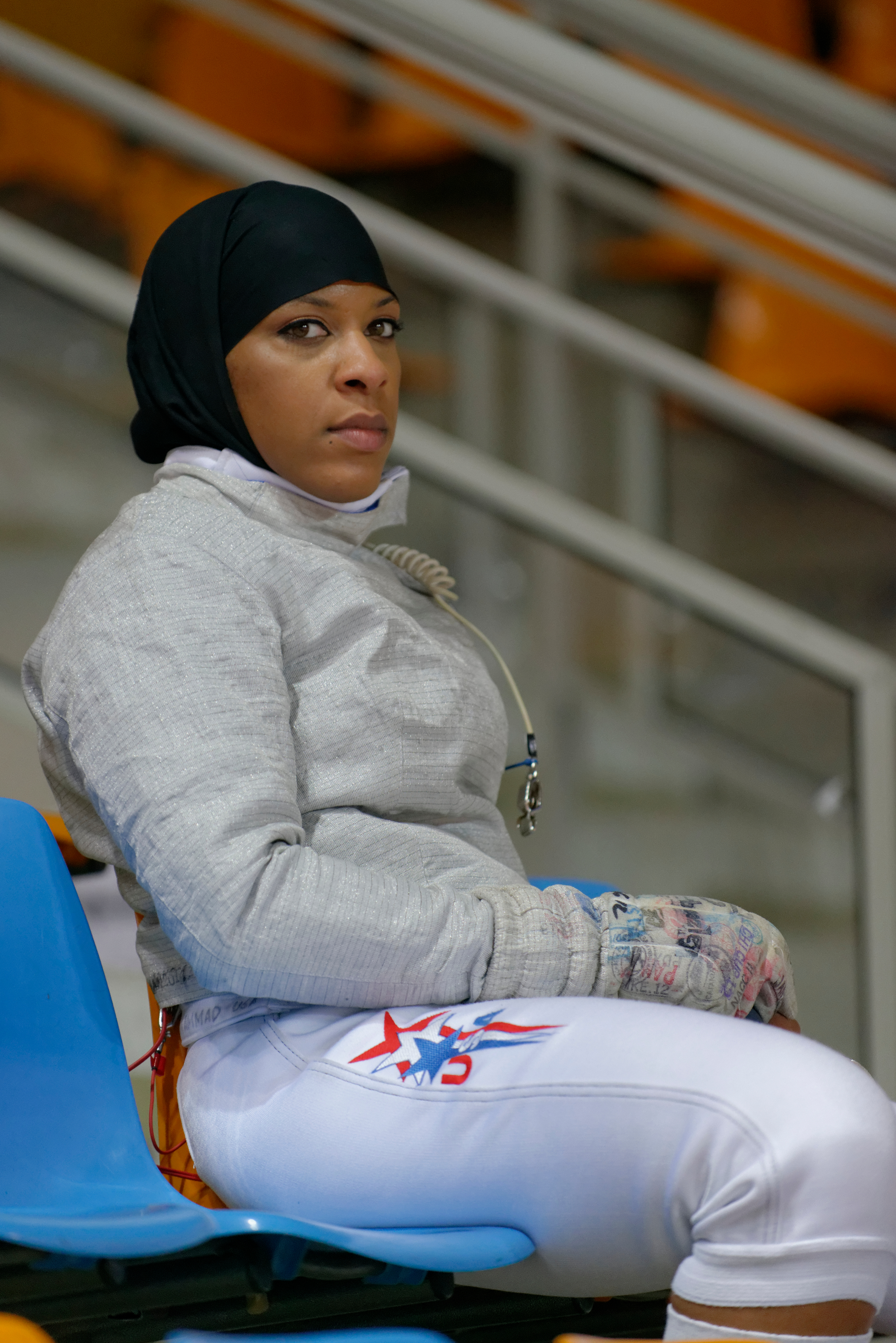 Ibtihaj Muhammad of the United States at the Trophée BNP Paribas-Grand Prix FIE, first stage of the women's sabre World Cup, in Orléans.